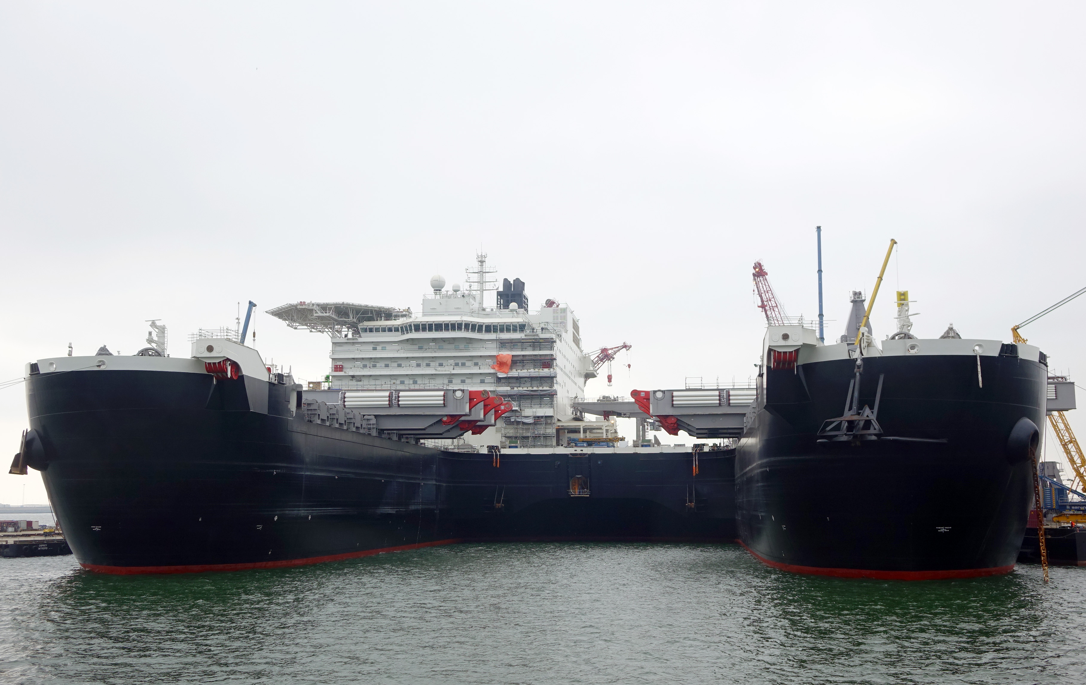 Crane ship Pioneering Spirit, Alexiahaven 14-3-2015.